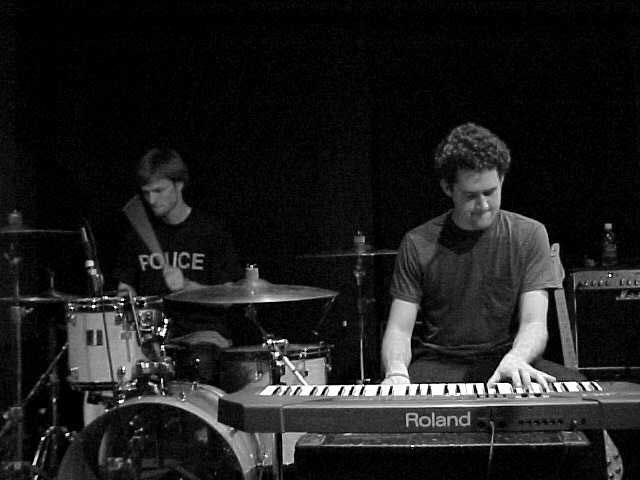 The Dismemberment Plan at the iowa union basement. Original photos from around 2001/2002?